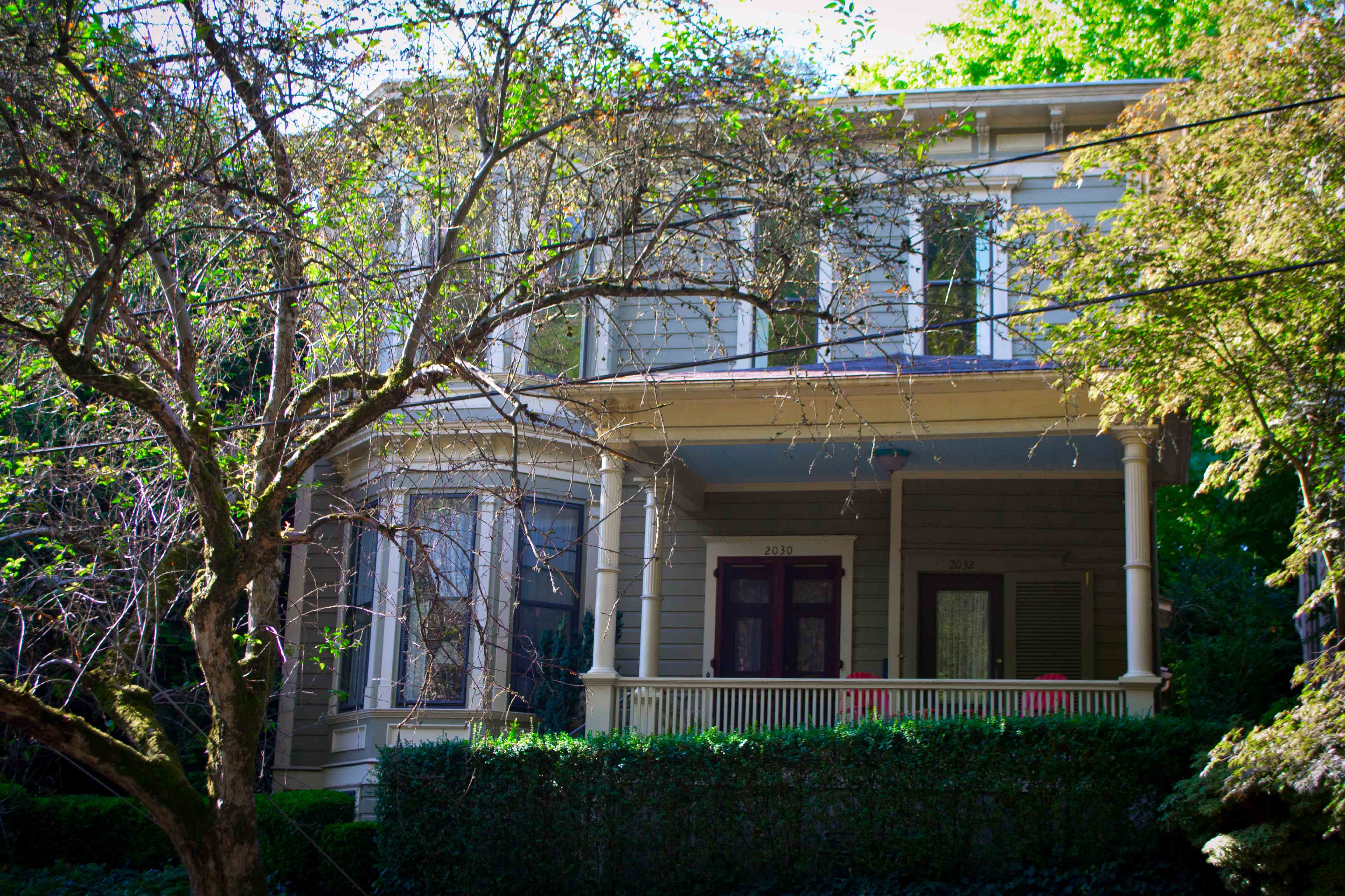 National Register of Historic Places listing in Portland, Oregon